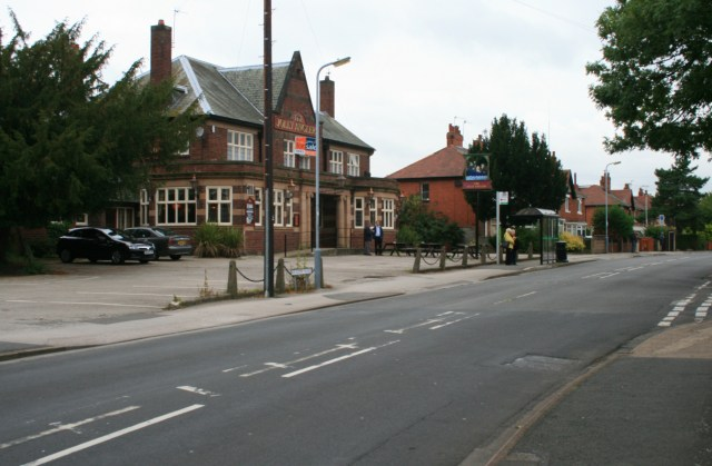 The Jolly Angler Meadow Road, Beeston Rylands.